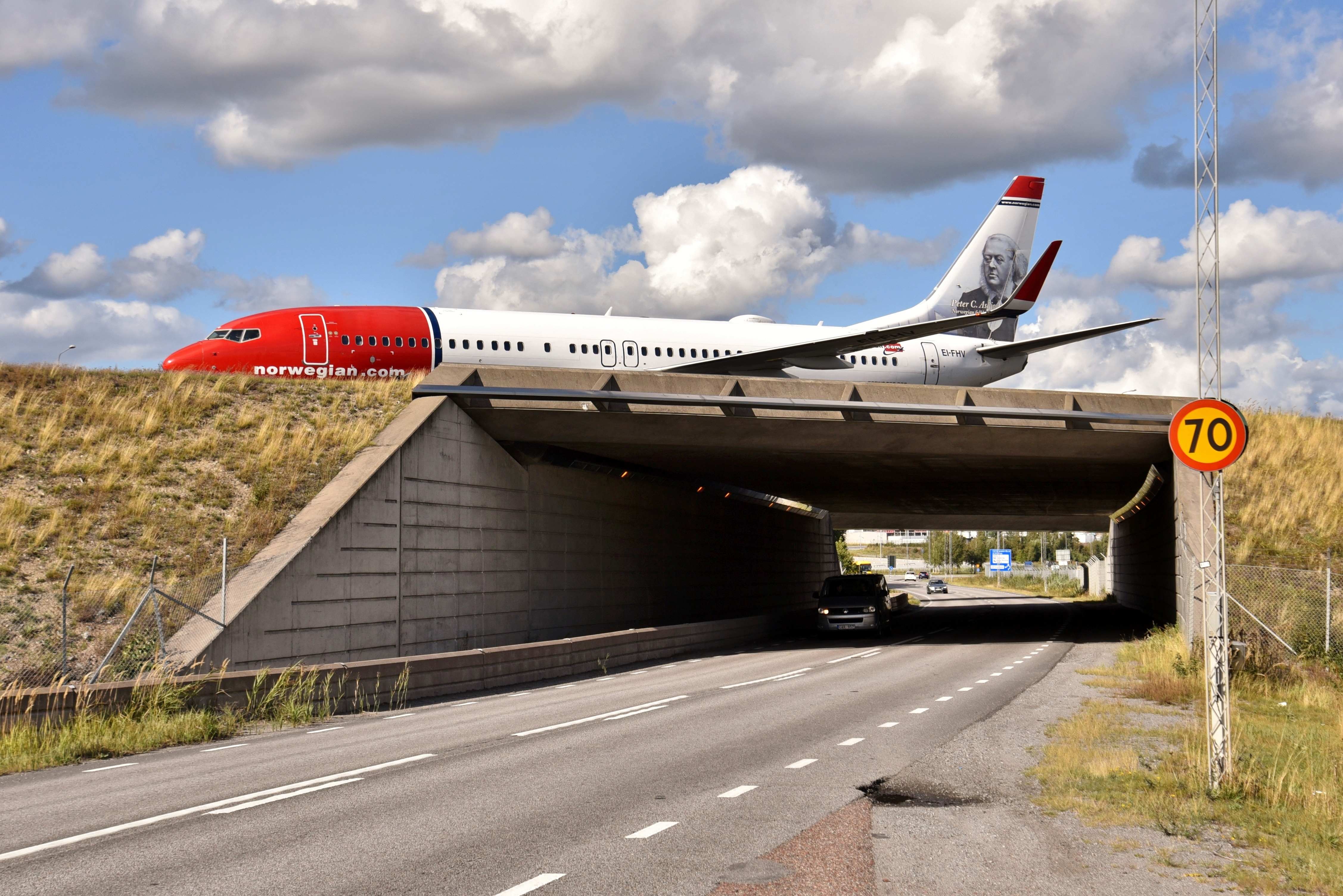 Norwegian Air International Boeing 737-8JP EI-FHV taxiing across one of the two aircraft bridges over Swedish county Road 273 at Stockholm Arlanda (ARN/ESSA), Sweden